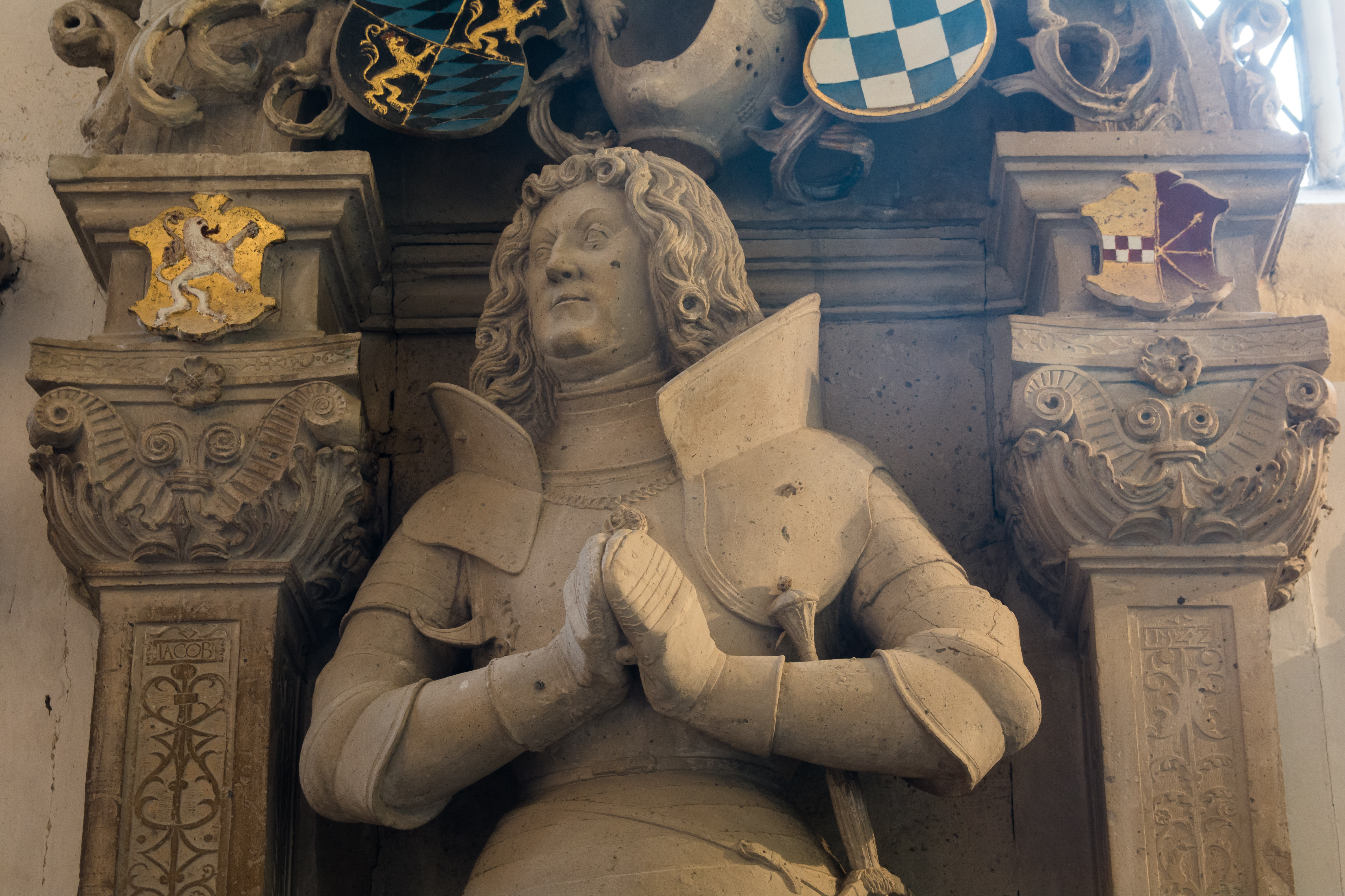 Bust of the Effigy of Johan I of Pfalz-Simmern